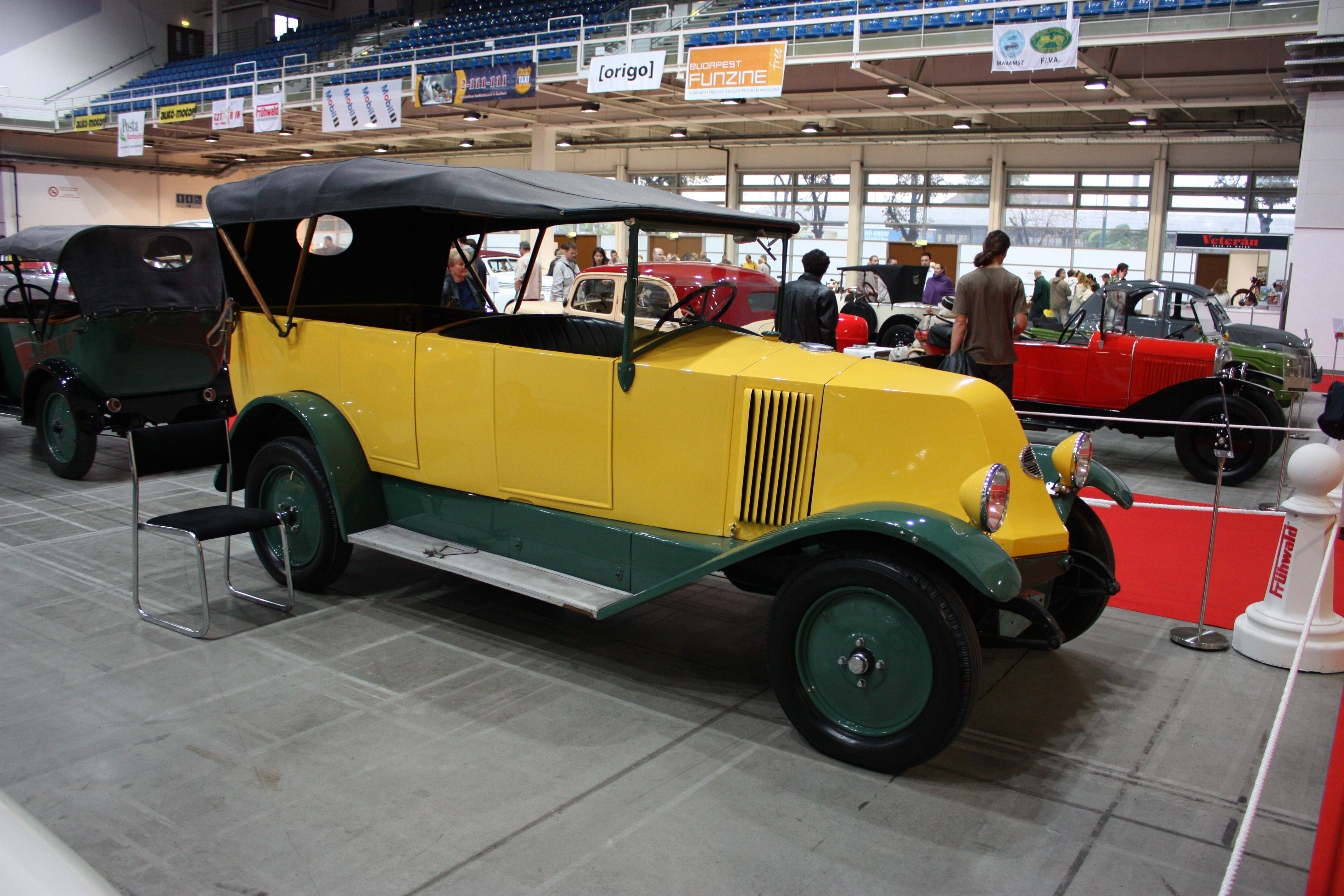 Oldtimer Show 2008.